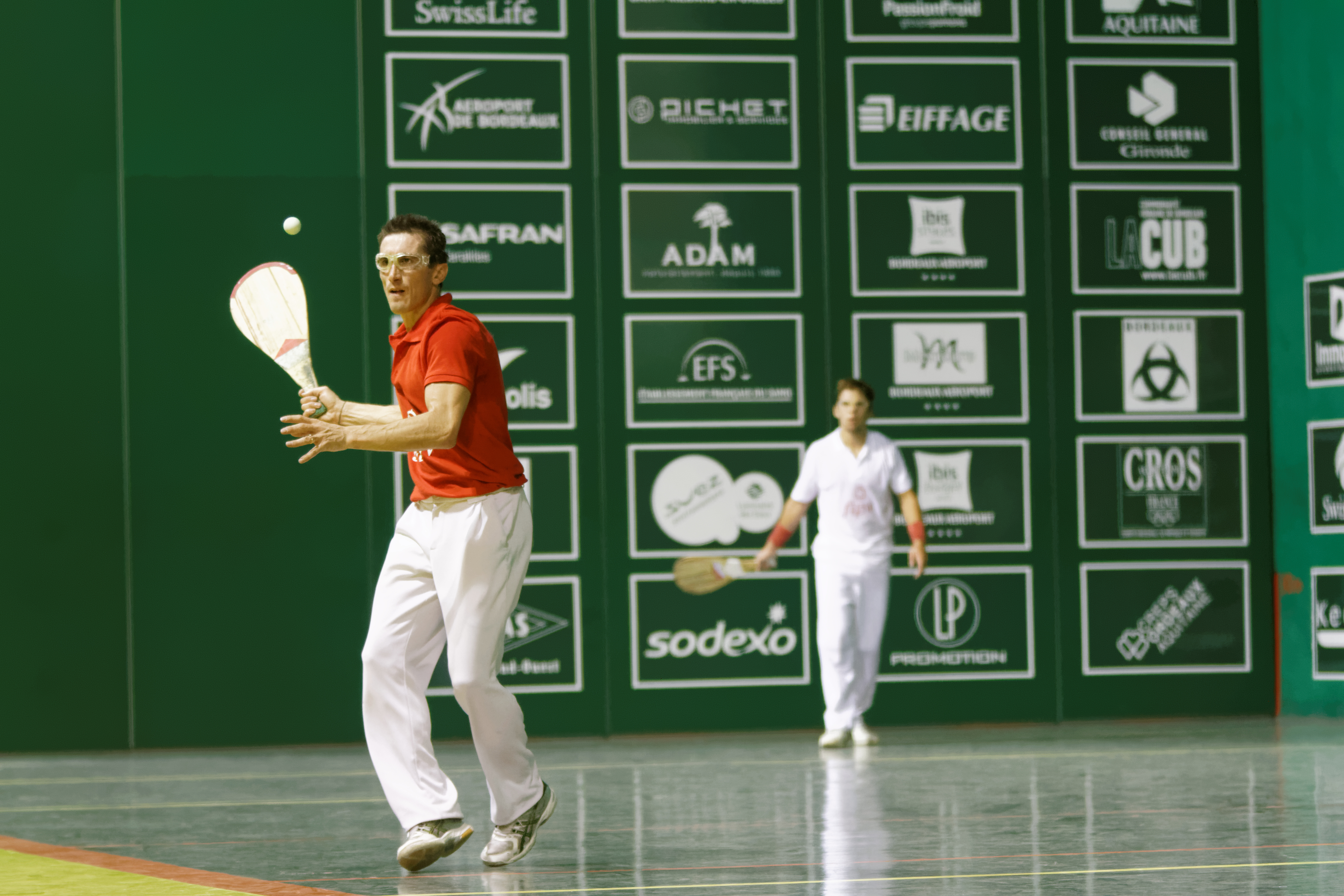 2013 Basque Pelota World Cup, 27th October - 2 November 2013, Le Haillan, France. Paleta Goma. France (Stéphane Suzanne) vs Argentina (Facundo Andreasen).